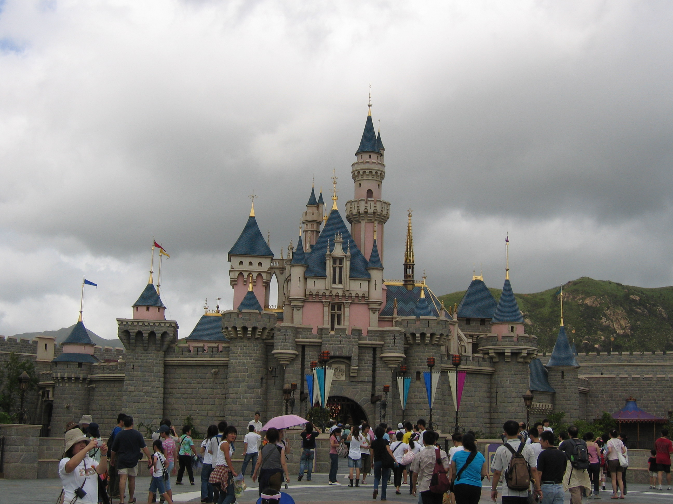 Image is a photo of the Disneyland in Hongkong. It is taken by doggie82 and he has the copyright.